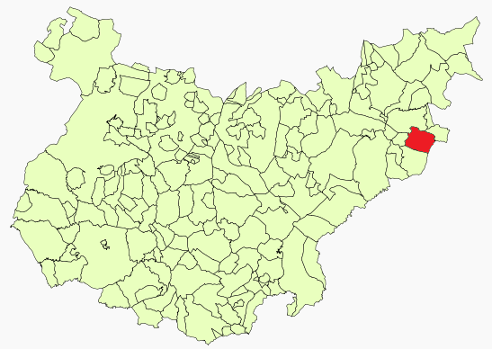 Garlitos